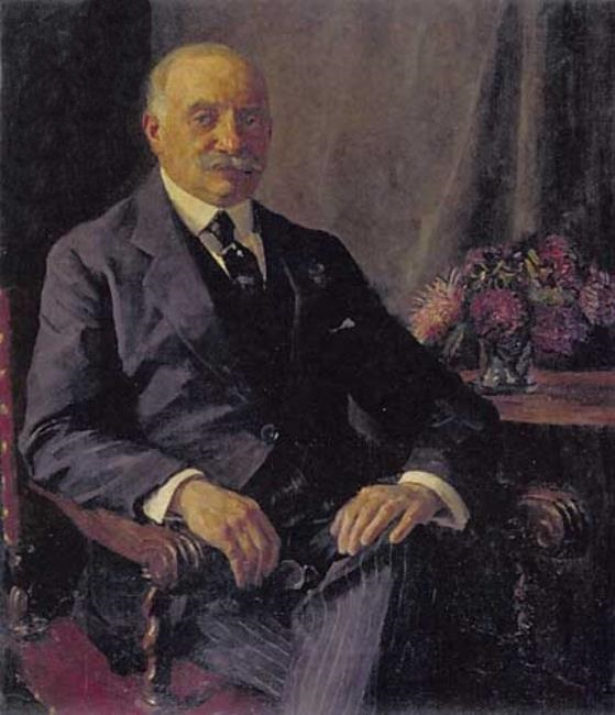 Fashion designer Sally Berg (1857-1924)